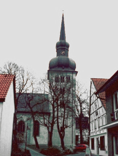 Pfarrkirche St. Cyriakus